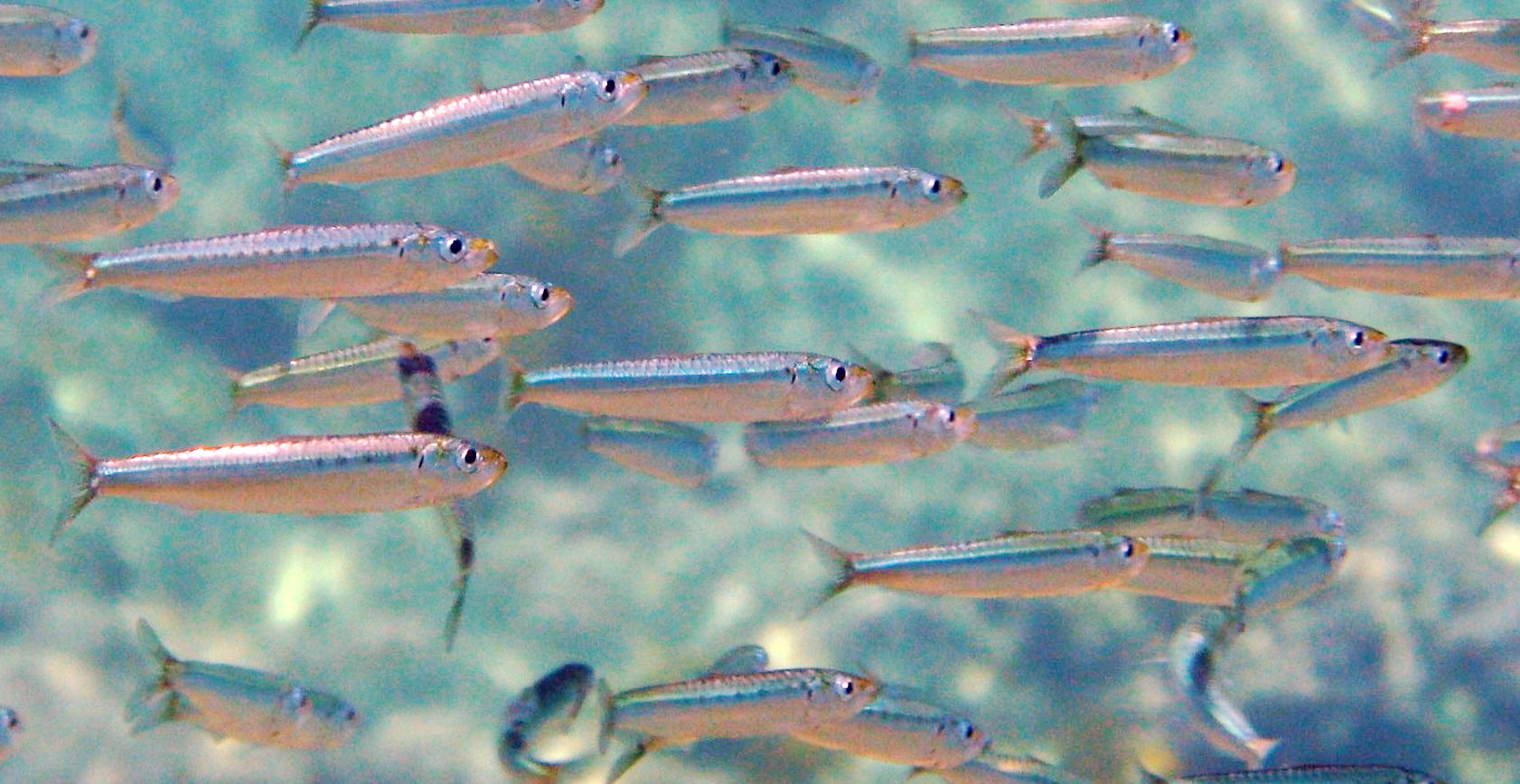 Sardina pilchardus photographed by Alessandro Duci in Ligurian sea (Italy)